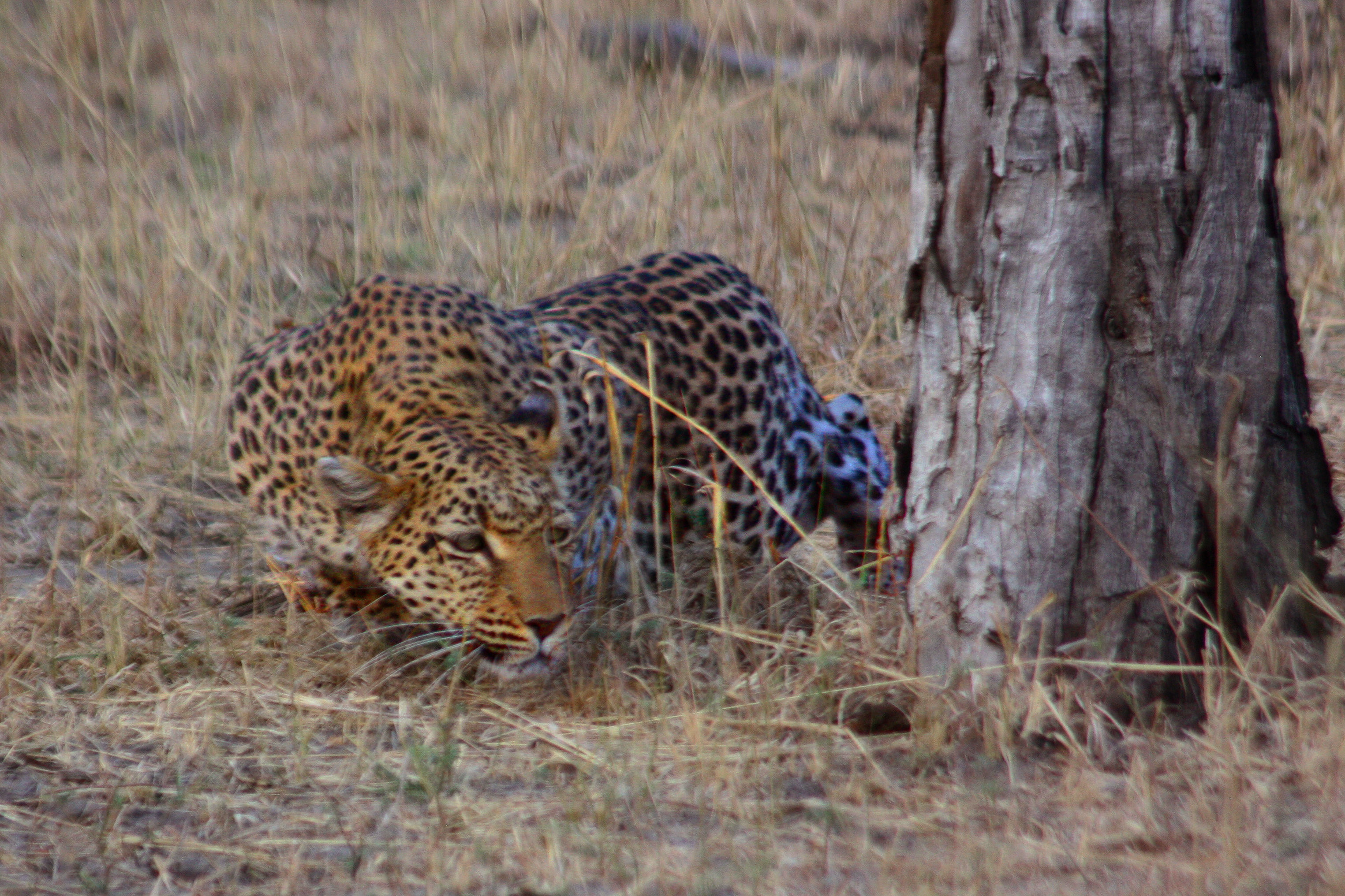 Leopard (Panthera pardus pardus) stalking in the Okavango Delta, Botswana